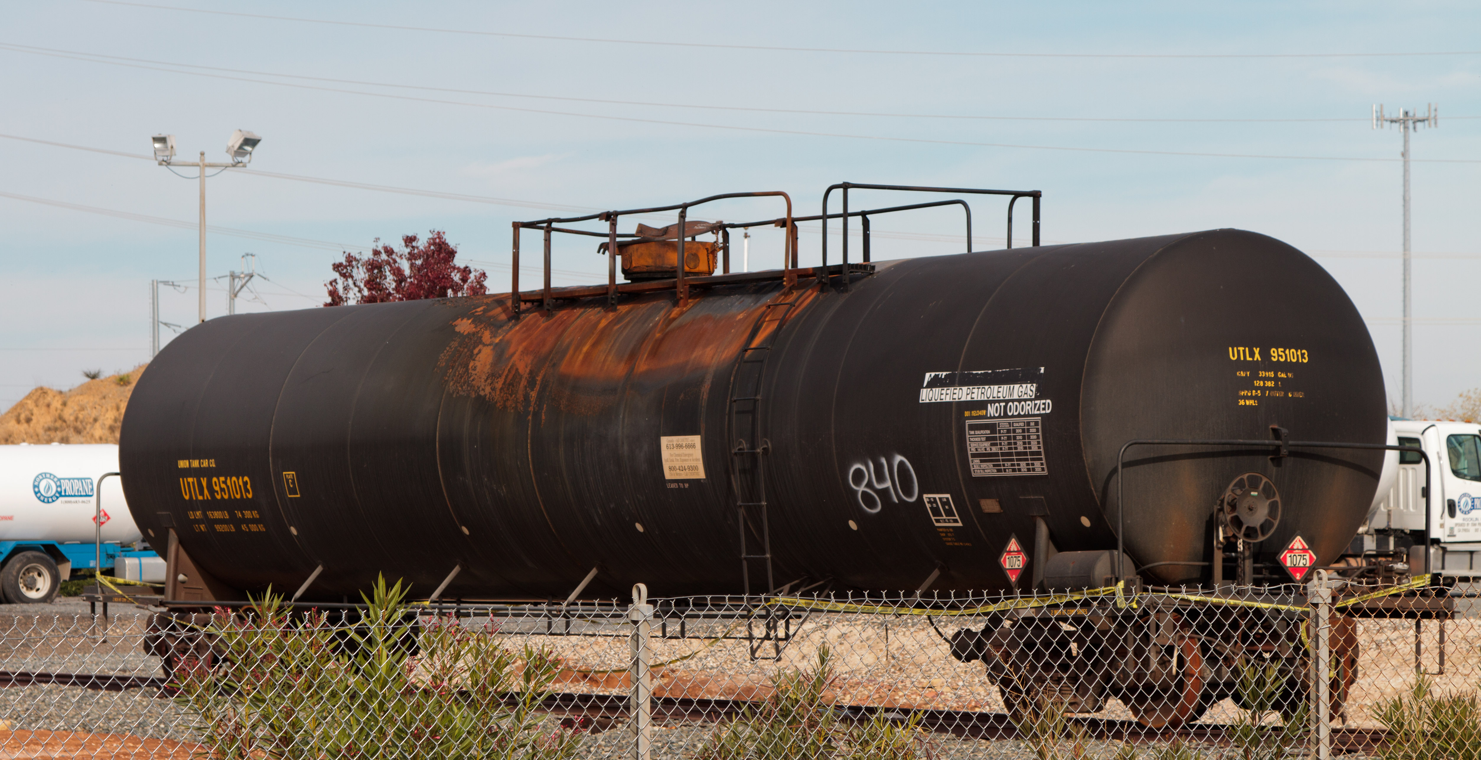 The propane tanker involved in the fire back in August, unmoved from the location three months later. Looking closely, you can see a bit of deformation near the top of the tank - not sure if that was caused by the fire or a pre-existing condition.